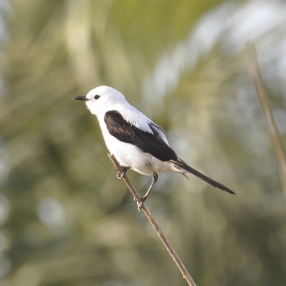 A male Black-and-white Monjita in Castillo, Rocha, Uruguay.